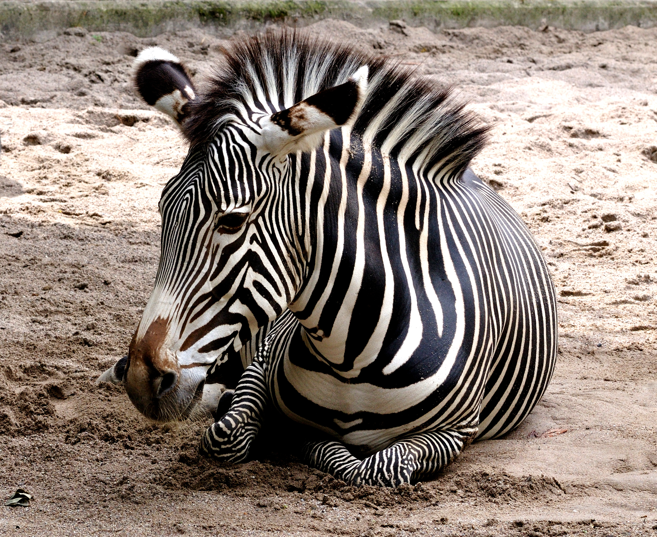 Grévy's Zebra (Equus grevyi) in the Frankfurt Zoo.